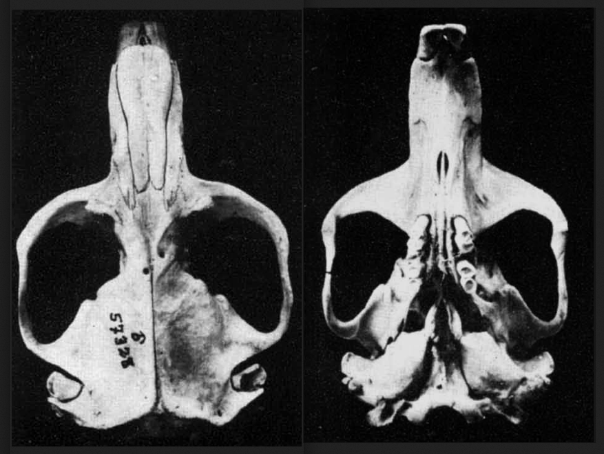 Skulls of Thomomys bulbivorus (Camas pocket gopher)